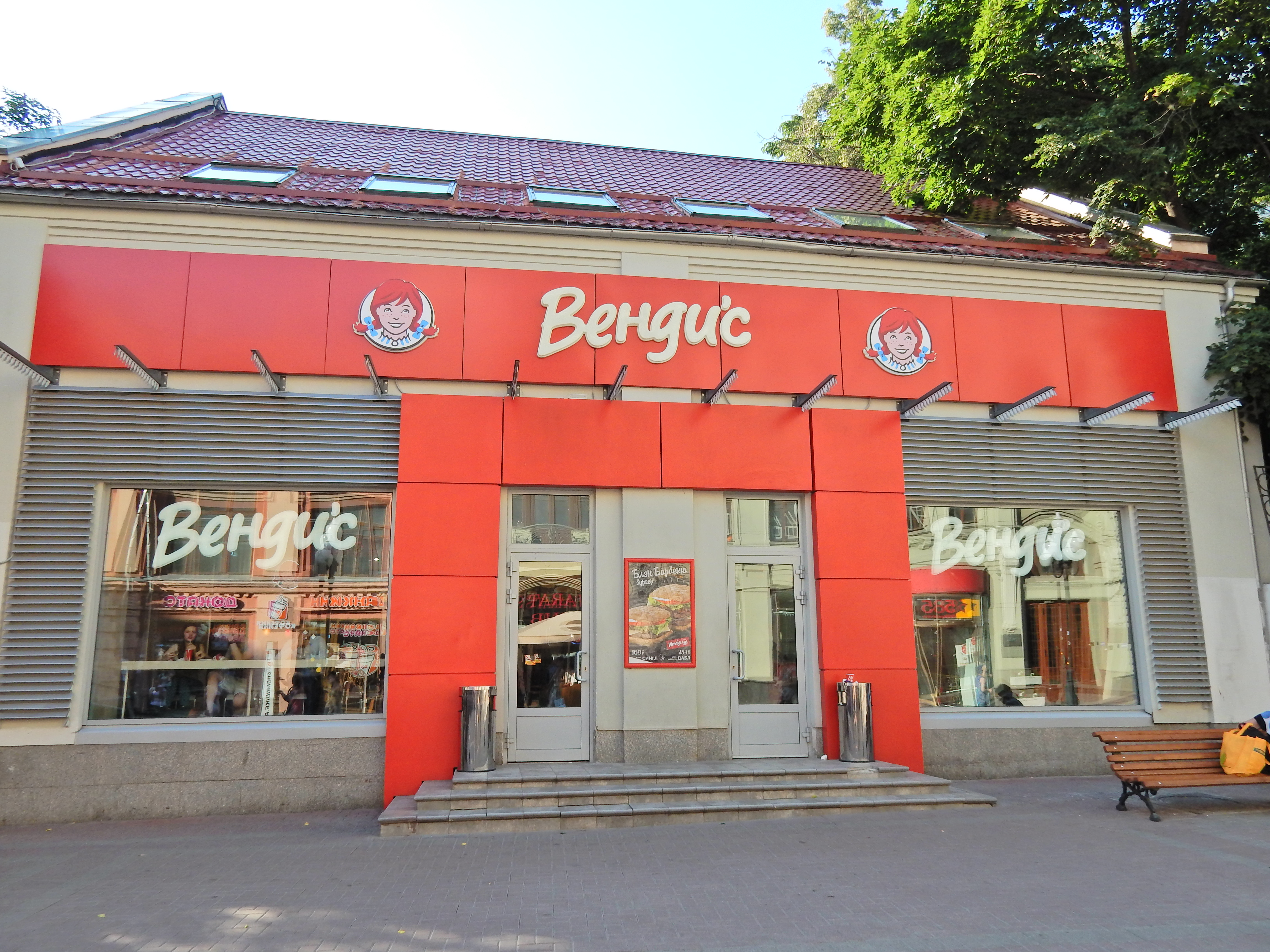 Moscow, Arbat Street, former Wendy's restaurant. In July-August 2014 all Wendy's restaraunts in Russia were closed. July 2014.